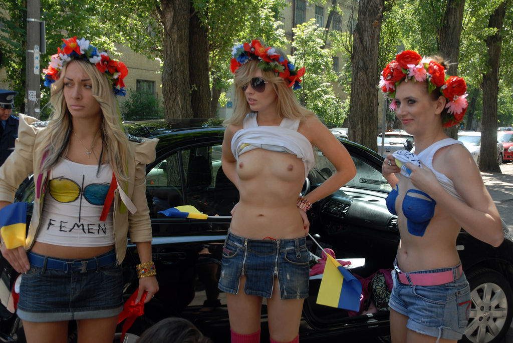 The activists, who painted their breasts in blue, showed their support for the so-called "blue bucket protesters" who are demanding that Russian authorities ban the blue strobe lights installed on the cars of officials, which reportedly cause traffic accidents.